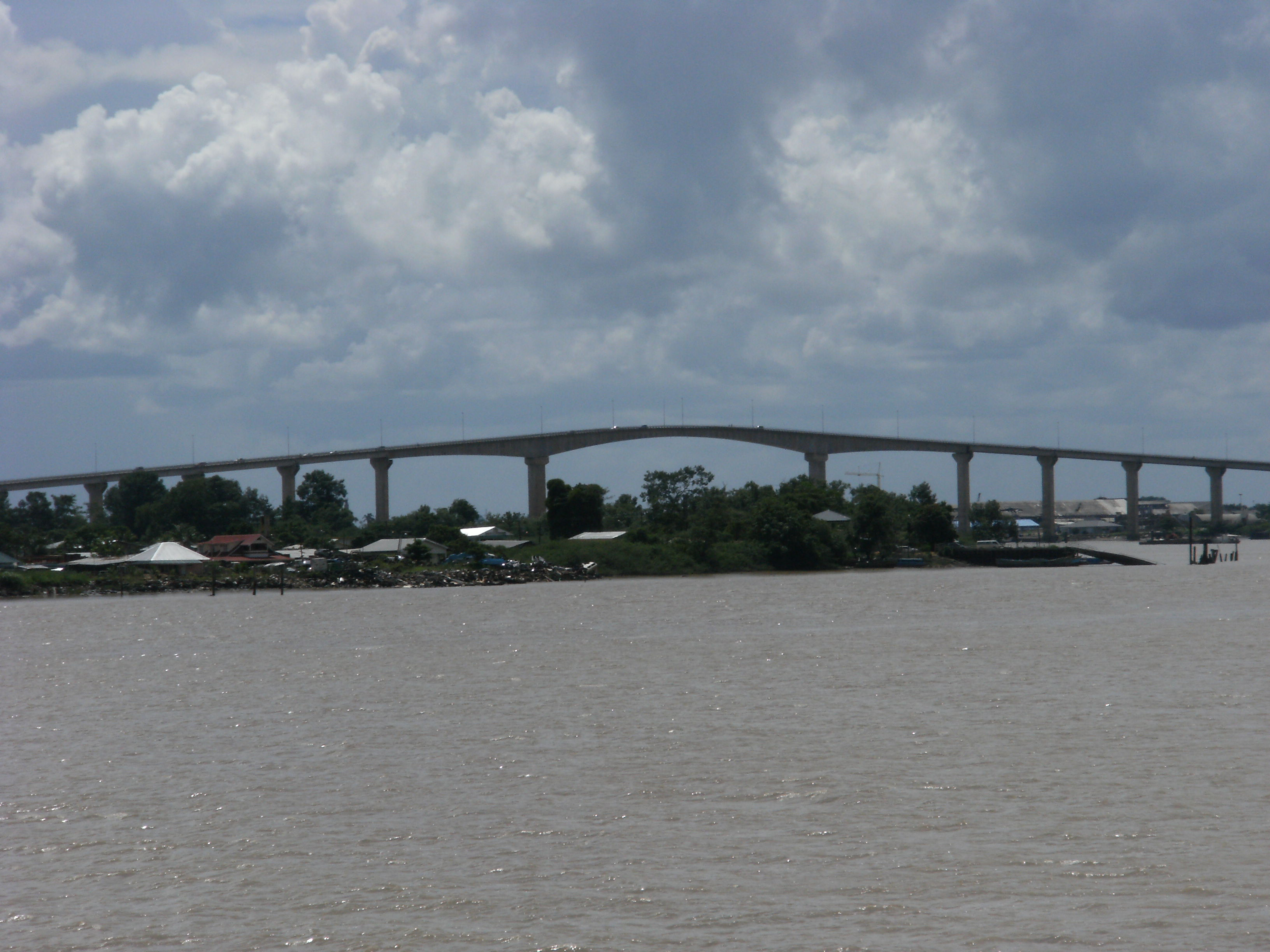 Bridge across the Suriname river; named after Jules Wijdenbosch; in Paramaribo.